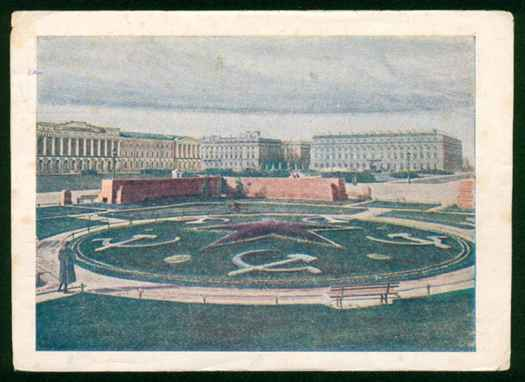 Saint Petersburg (Russia), Field of Mars.